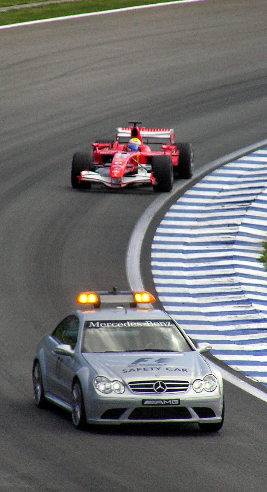 Formula One 2006 Rd.18 Interlagos: Safety Car with #6 Felipe Massa (Scuderia Ferrari)